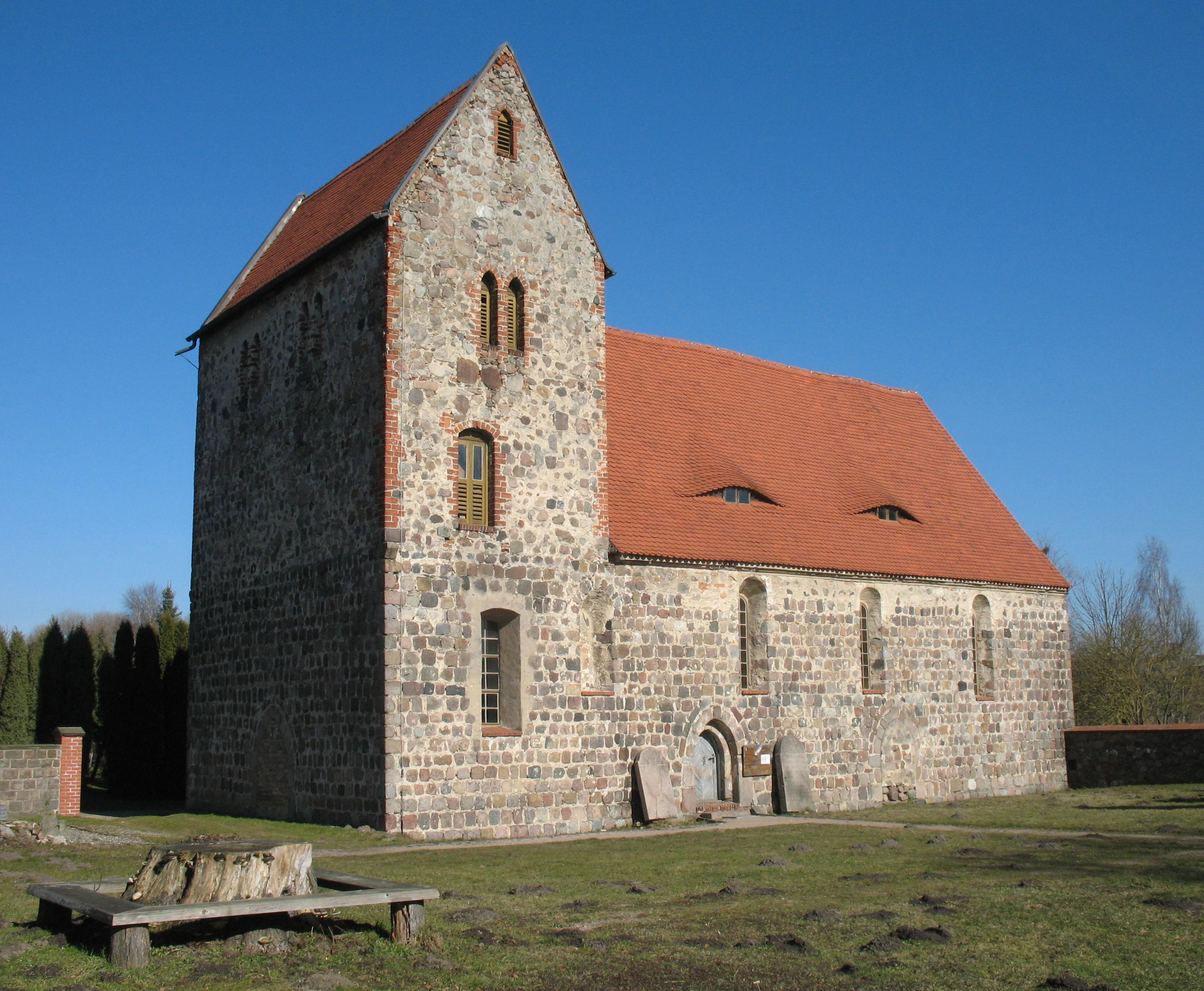 Church in Oderberg-Neuendorf in Brandenburg, Germany